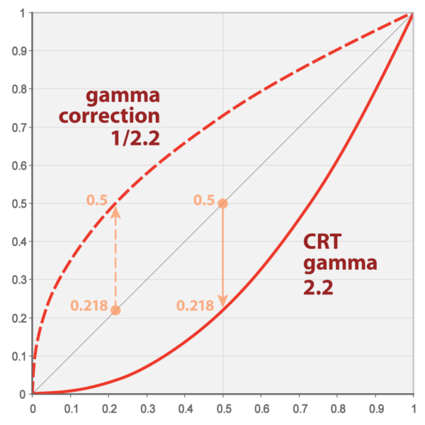 Gamma correction for CRT